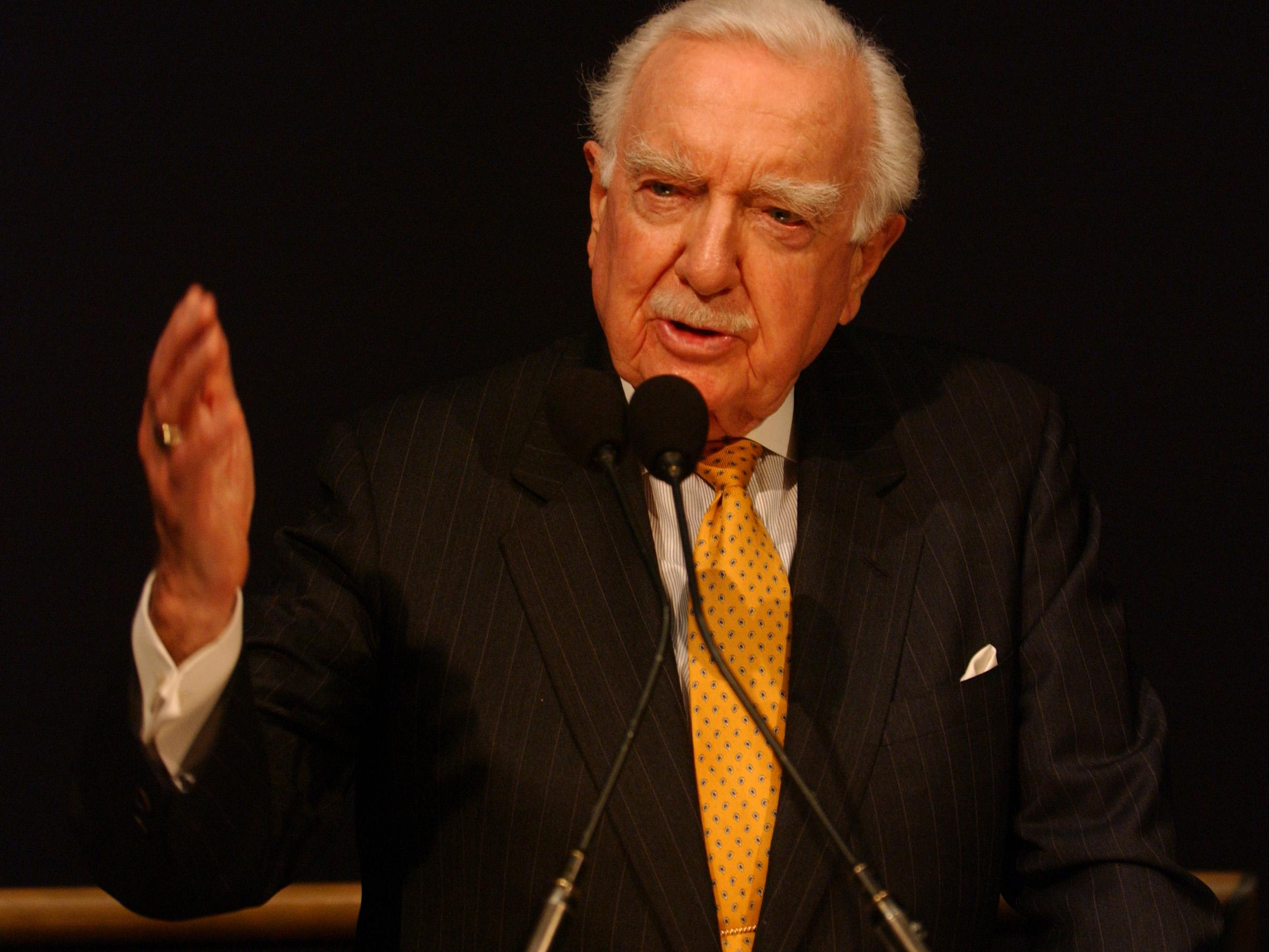 Original caption:"NASA Remembers Walter Cronkite. Legendary CBS newsman Walter Cronkite speaks in February 2004 at a ceremony at the National Air and Space Museum in Washington honoring the fallen astronauts of the STS-107 Columbia mission.